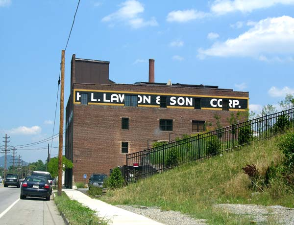 H.L. Lawson & Son Warehouse listed on the National Register of Historic Places in Belmont, Roanoke, Virginia, USA